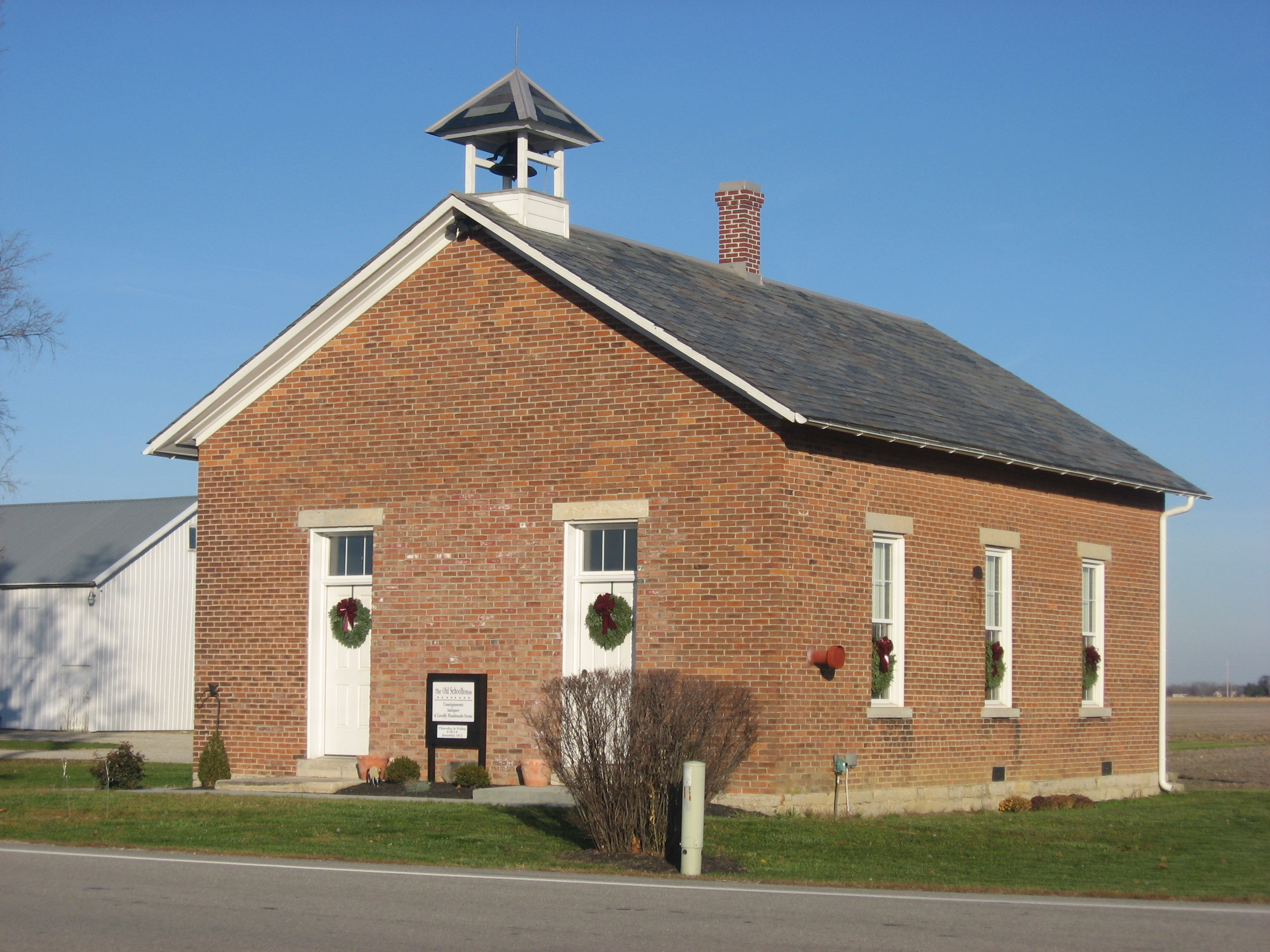 Front and southern side of the Newberry Township School, located at 4045 State Route 721 south of Bradford in Newberry Township, Miami County, Ohio, United States. Built in 1879, it is listed on the National Register of Historic Places.